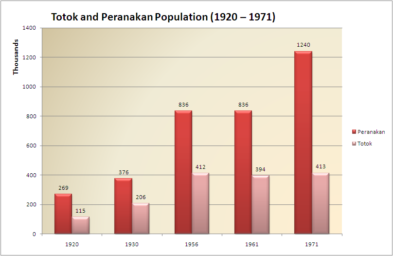 A comparison of the Totok and Peranakan Chinese populations from 1920 to 1971. Based on data in Dilema Minoritas Tionghoa by Leo Suryadinata, published in 1984 by PT Grafiti Pers. OCLC 11882266. Page 96.